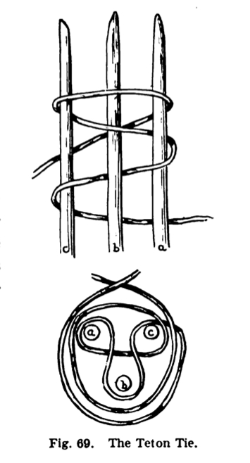 Teton tipi tie. Knot used at the top of tipi poles.